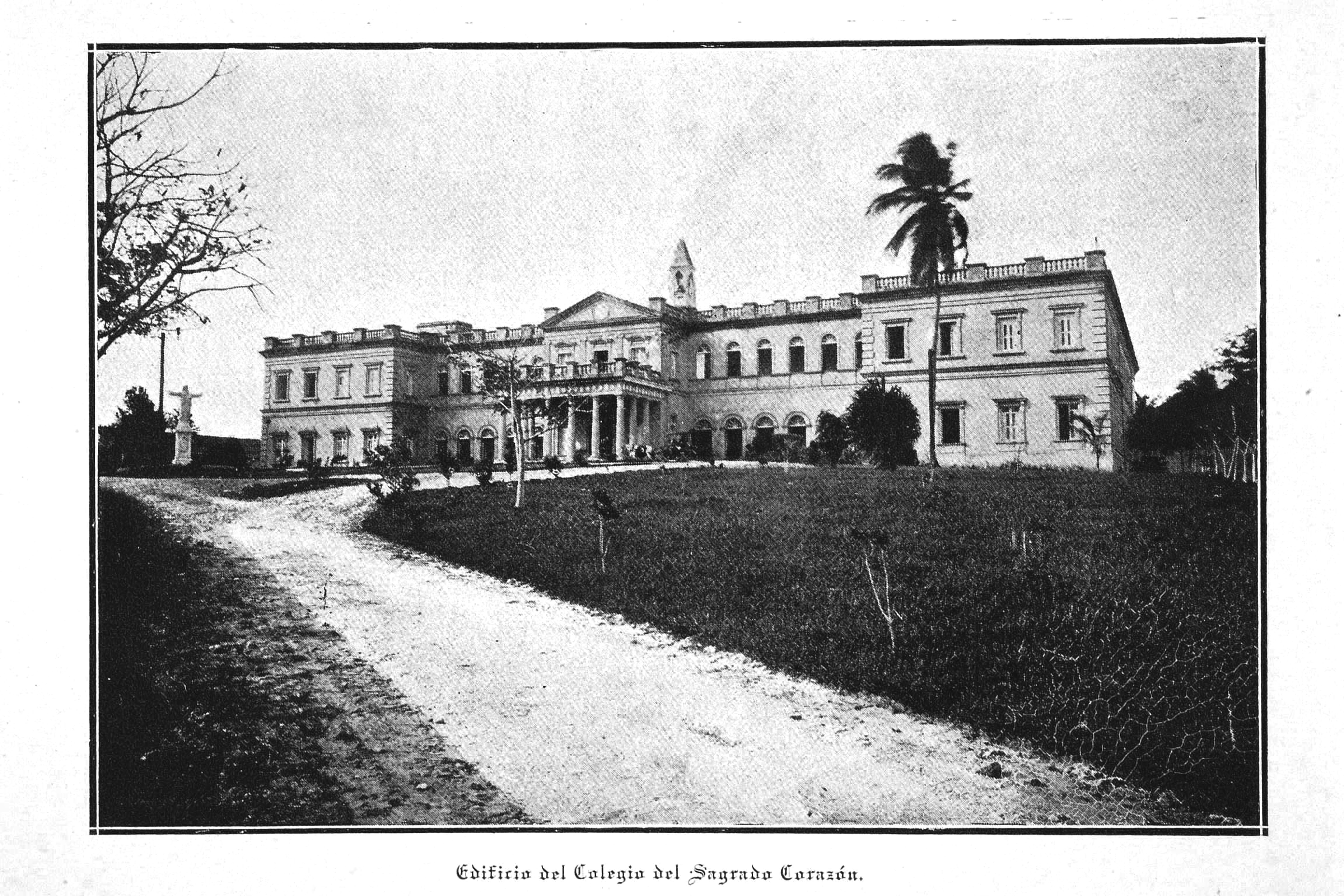 Edificio Sagrado Corazón c.1880s — in Puerto Rico